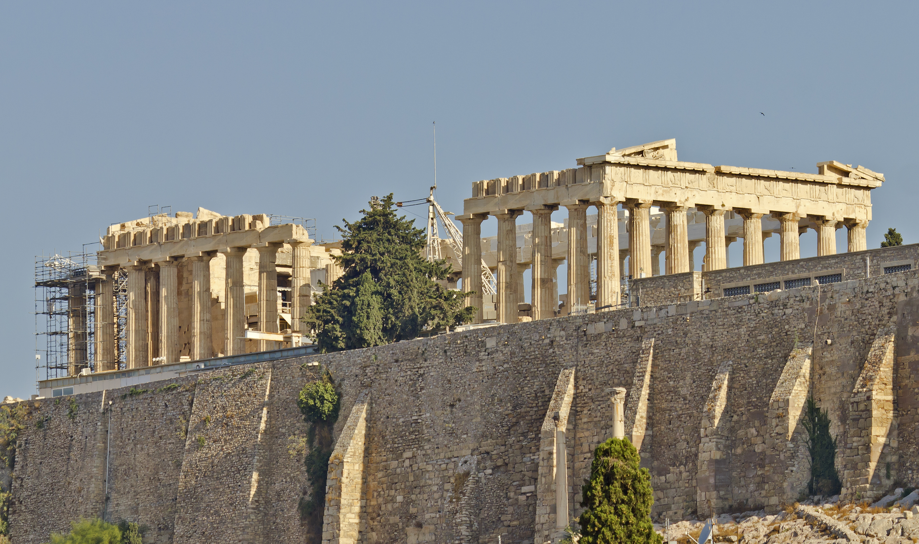 Parthenon in Athens (Attica, Greece)